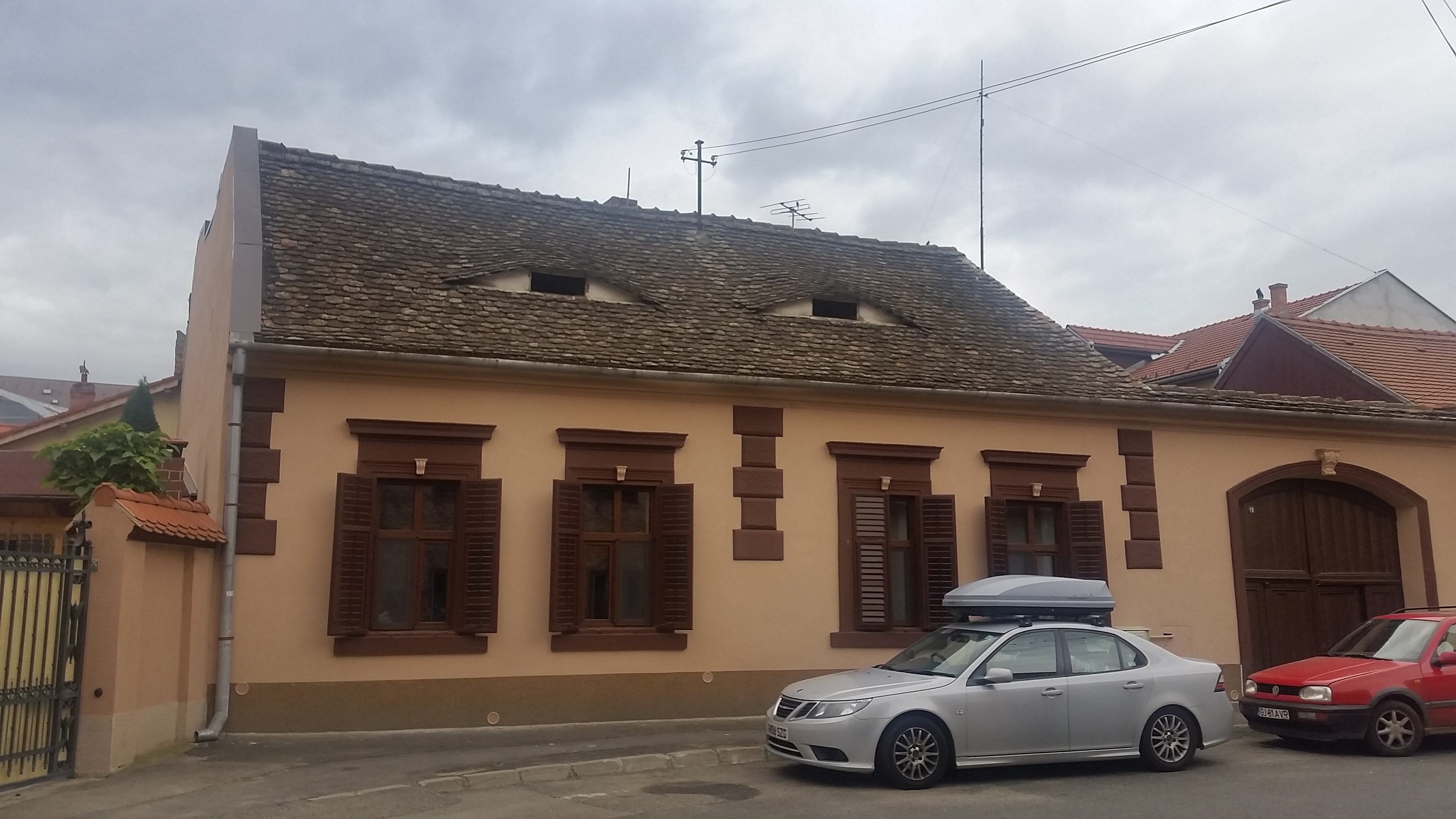 Typical roof windows in Sibiu